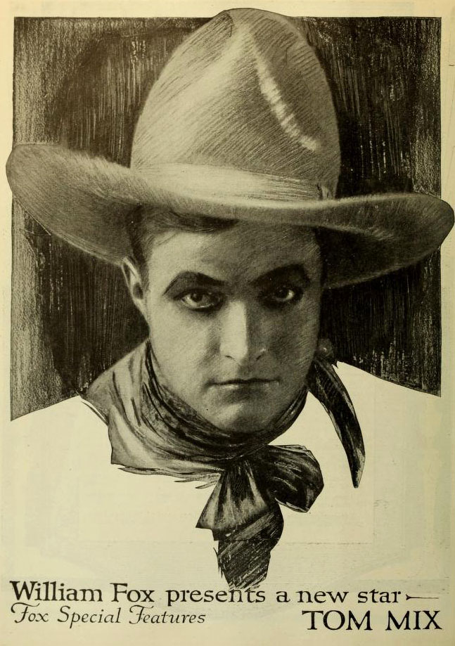 Advertisement in Moving Picture World, Dec 1917